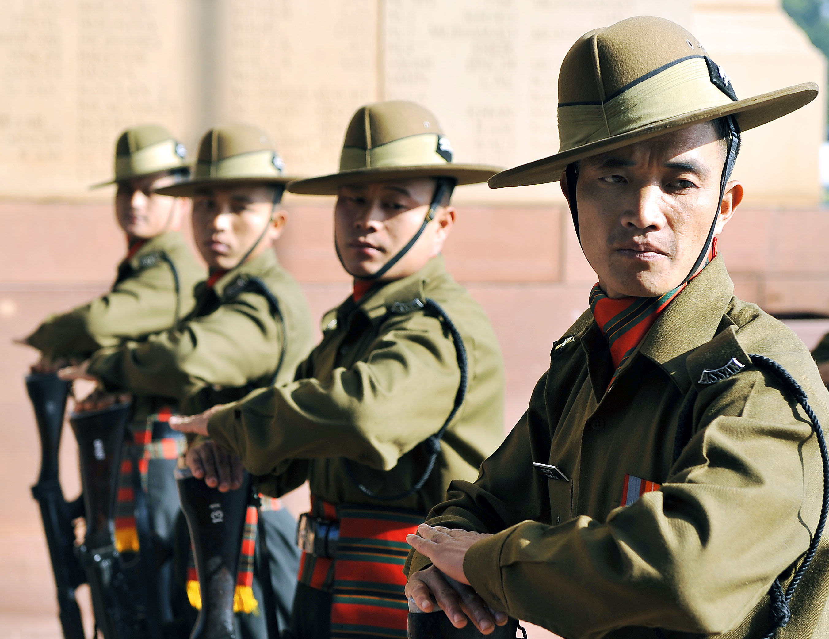 Indian soldiers stand at attention during a wreath ceremony in which U.S. Defense Secretary Robert M. Gates placed a wreath at the India Gate Memorial in New Delhi, India. The soldiers are from the Assam Regiment as can be seen from the shoulder badge of the leading soldier.